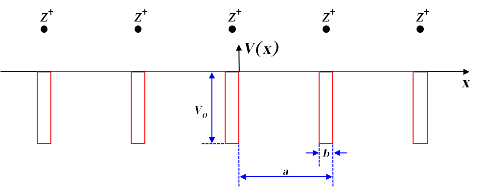 A drawing of a periodic lattice to replace the one already in the "Particle in a one-dimensional lattice" page